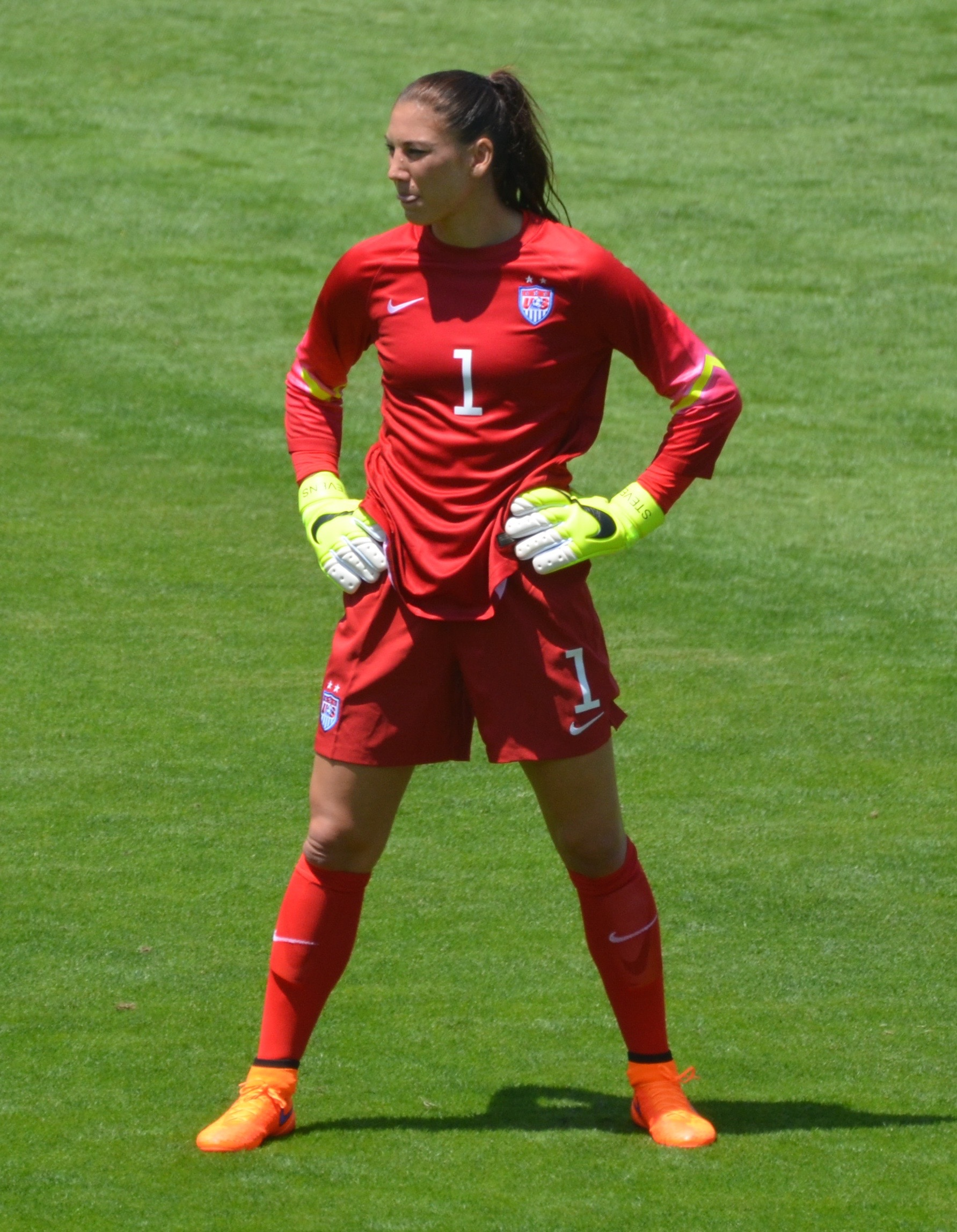 Hope Solo playing for the US Women's National Team in San Jose, California on 10 May 2015.